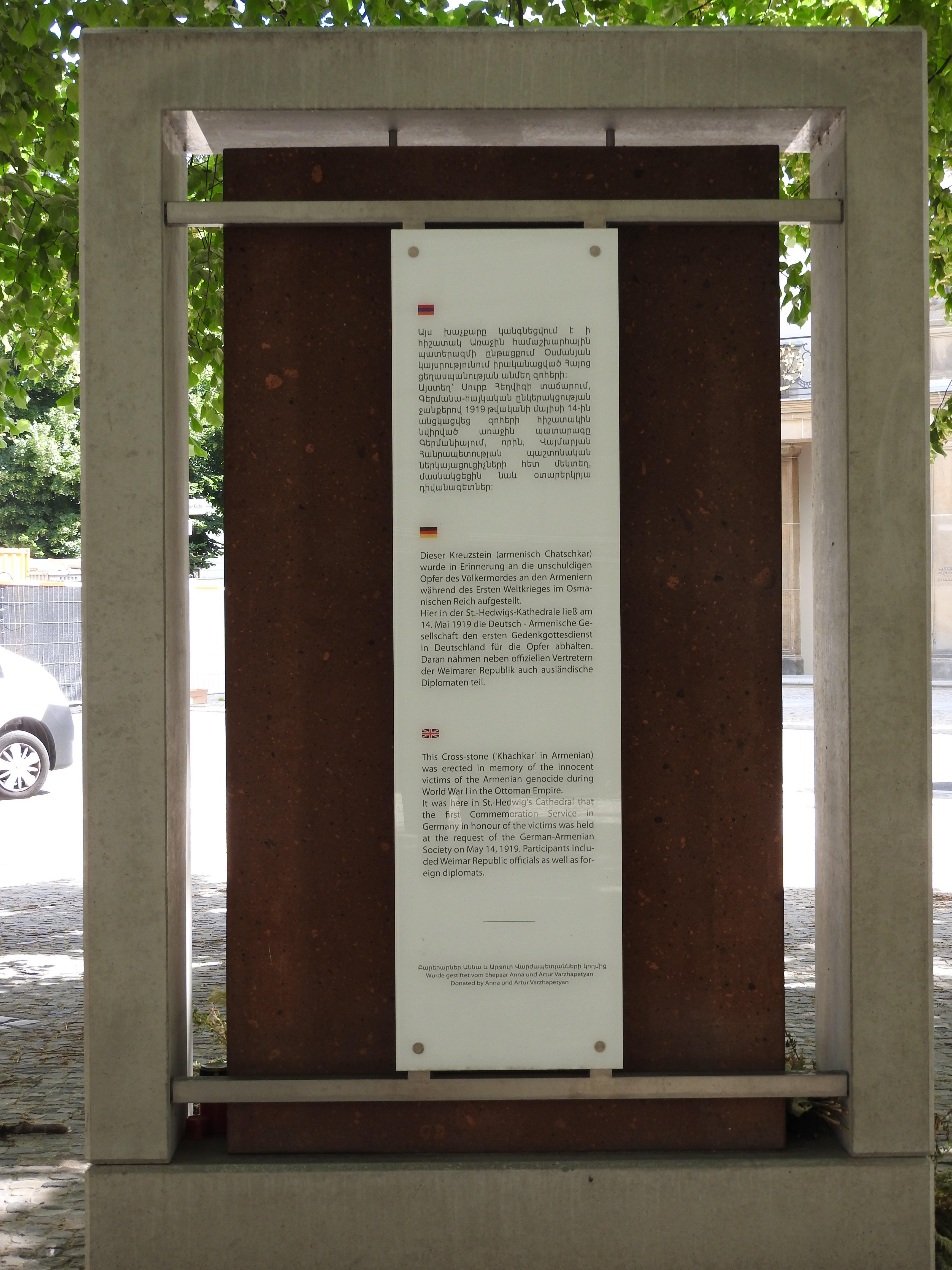 Khachkar nearby the St.-Hedwigs cathedral in Berlin, Germany